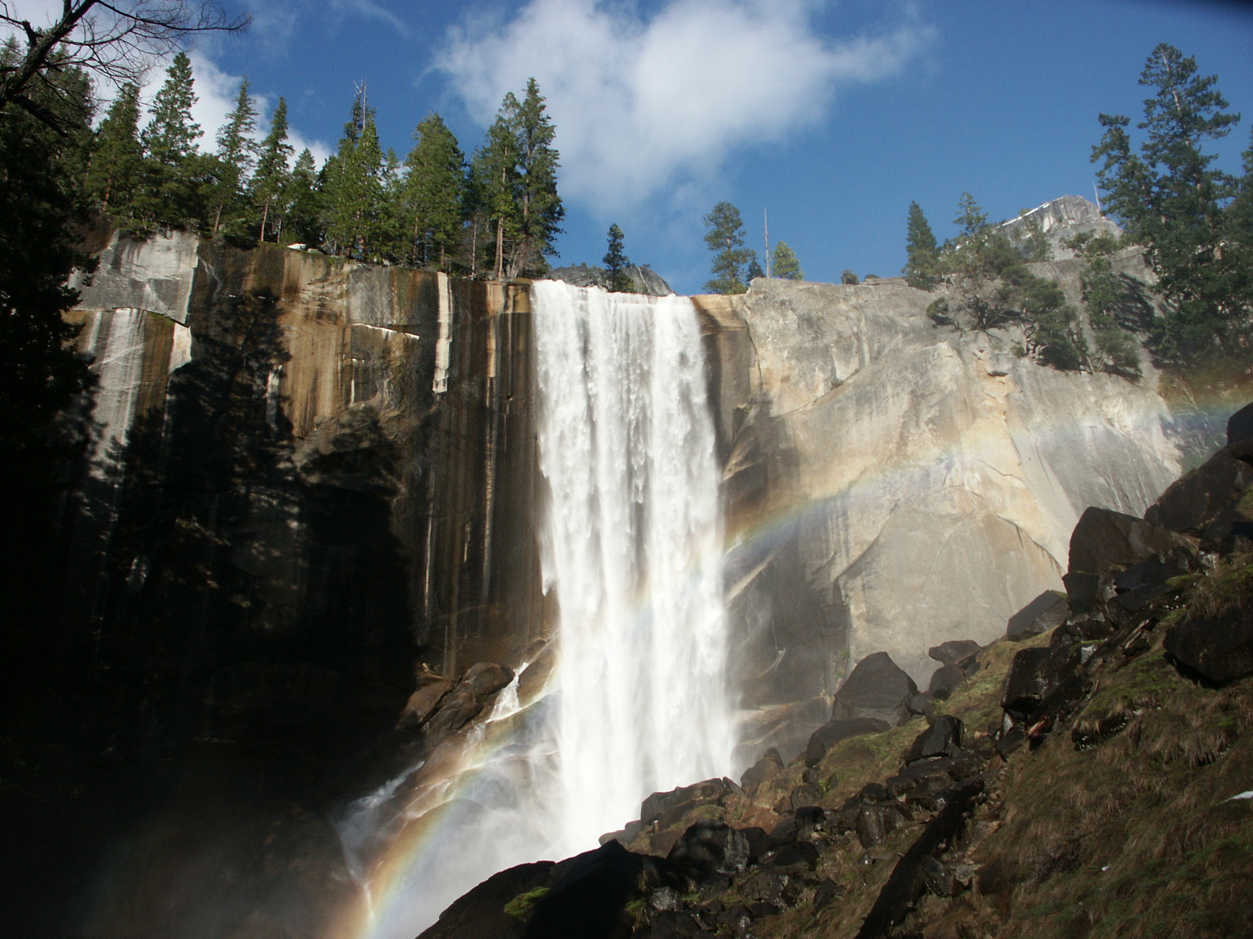 Rainbow at the Vernal Falls at Yosemite National Park